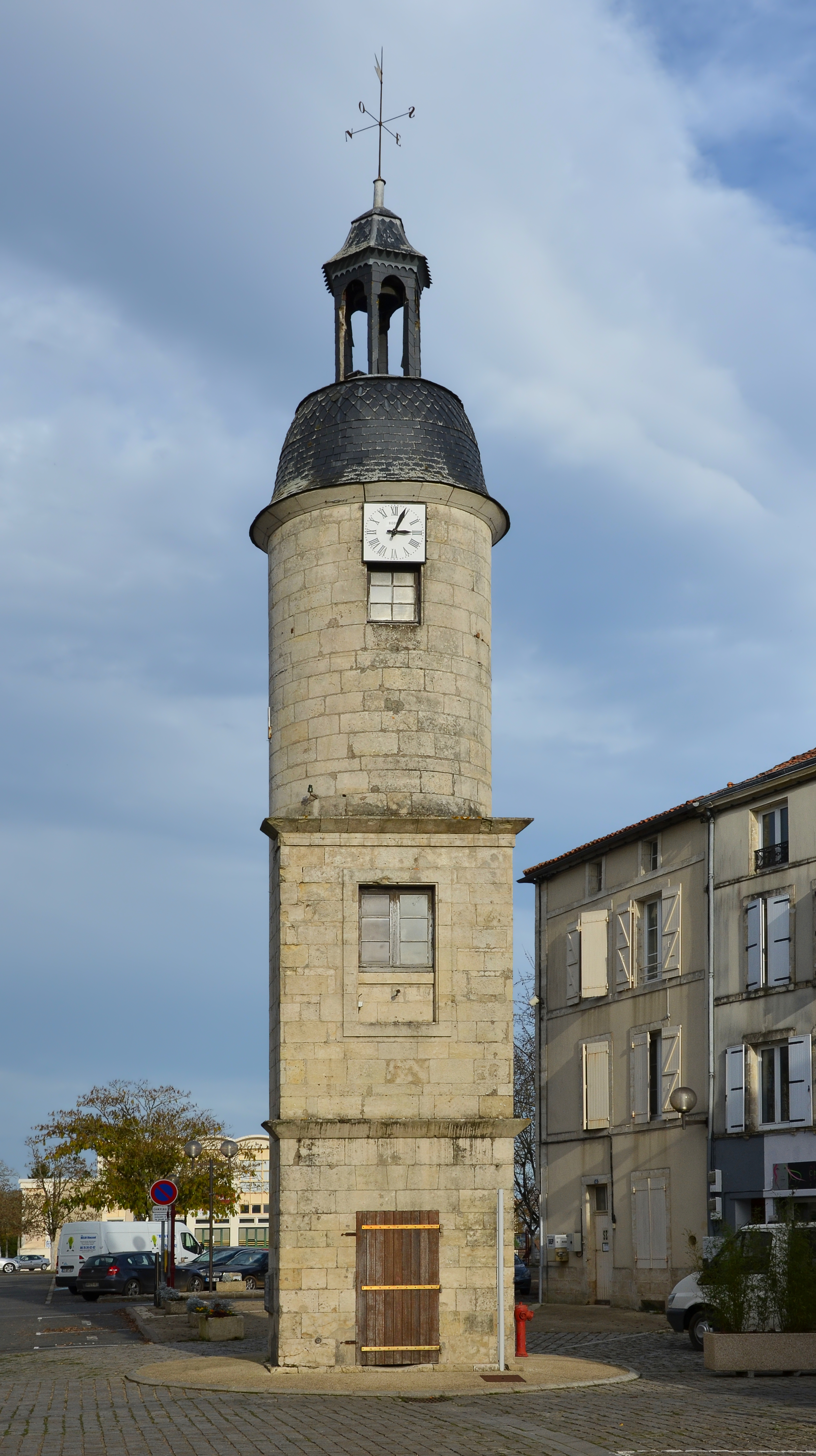 Clock tower (1840), Sauzé-Vaussais, Deux-Sèvres, France.